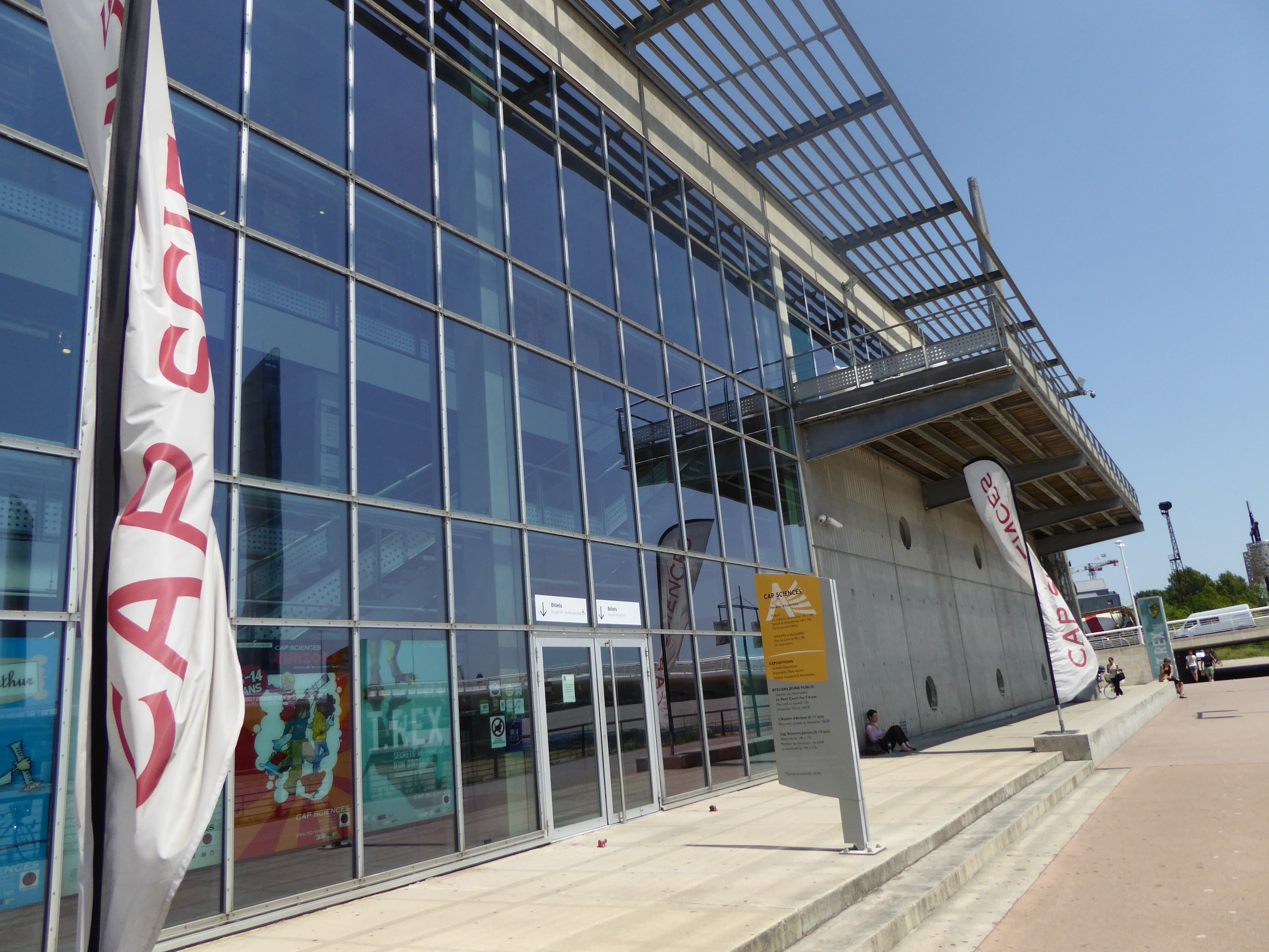 Cap Sciences, Bordeaux, France, July 2014